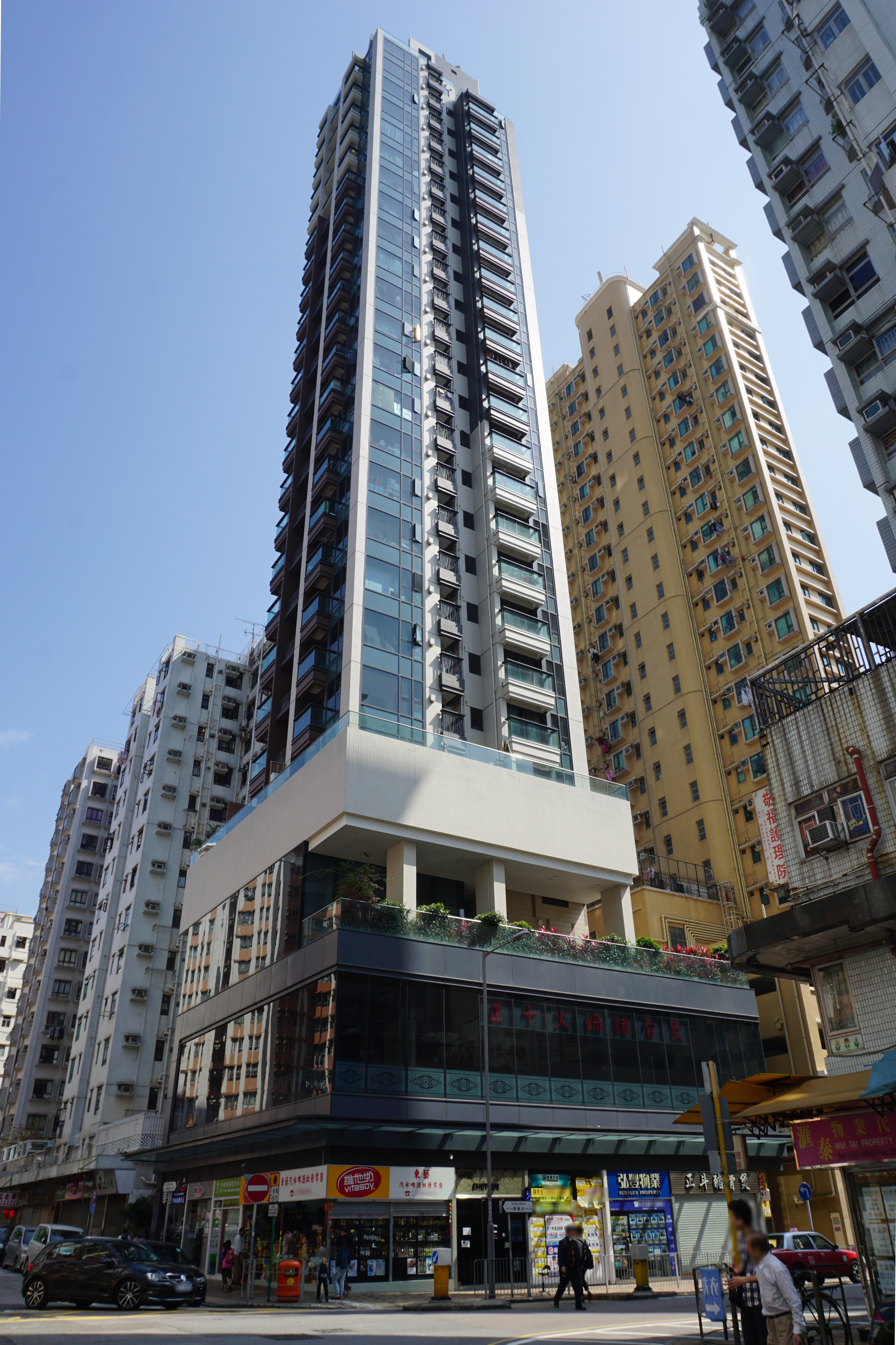 The Met. Delight in Cheung Sha Wan, Hong Kong.